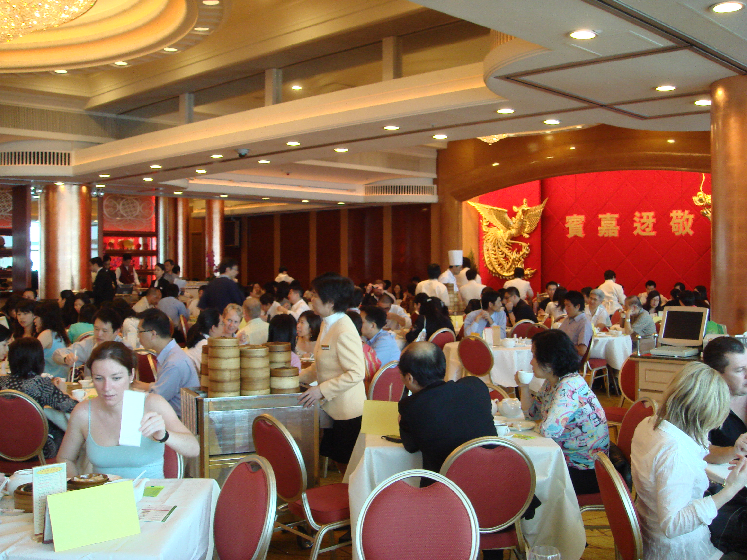 Cantonese dim sum yumcha yum cha City Hall Maxim's Palace Restaurant